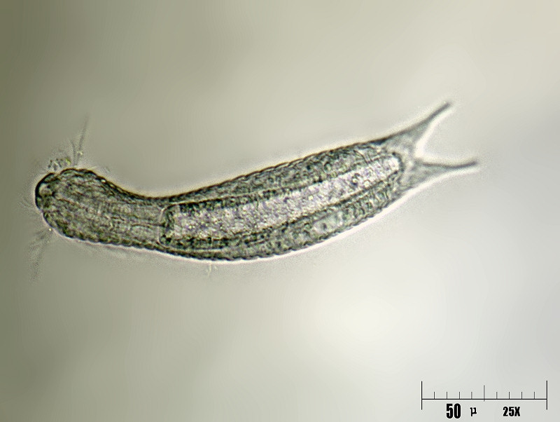 Microphotograph of Lepidodermella squamatum (Gastrotricha: Chaetonotida)